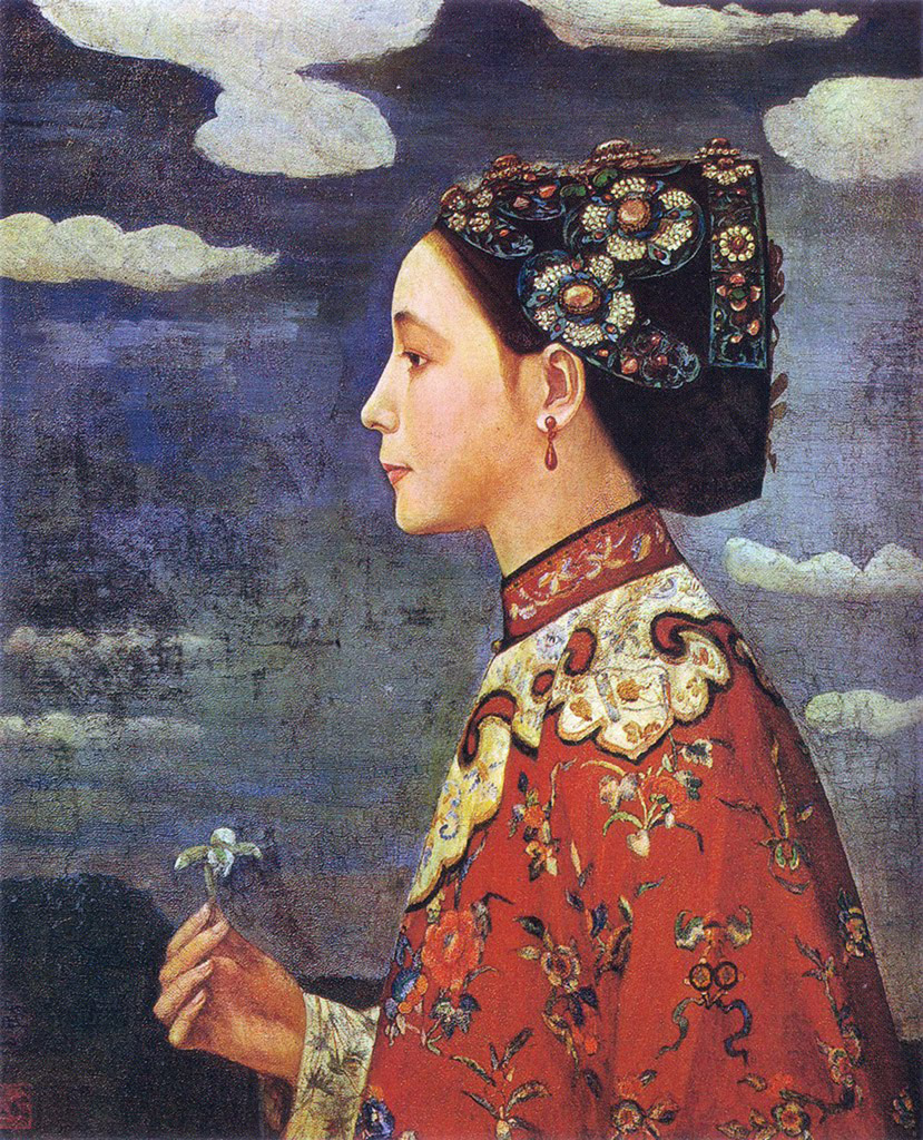 The Orchid, by Fujishima Takeji